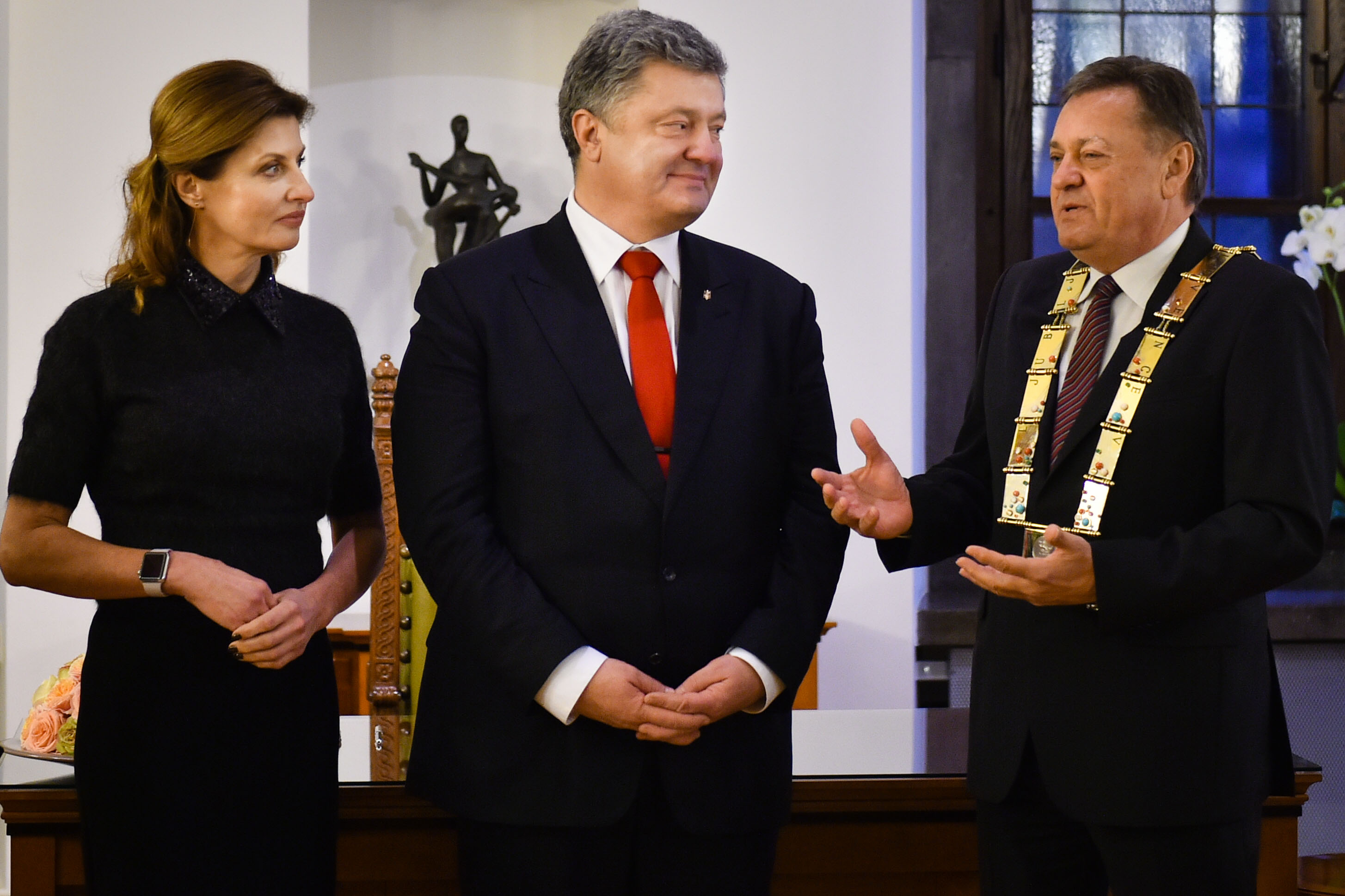 Petro Poroshenko in Slovenia in 2016.